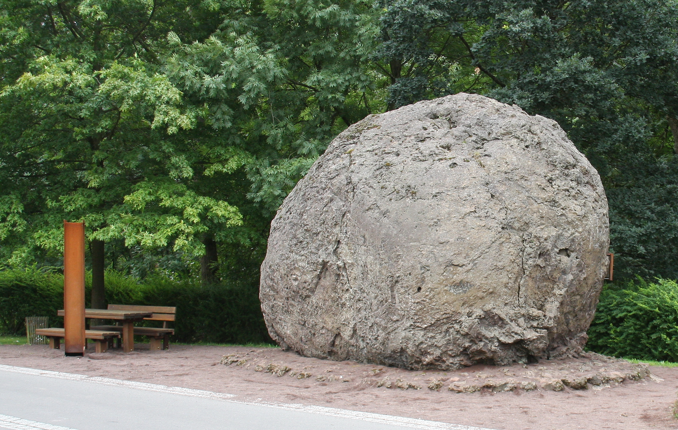 This is a picture of a lavabomb at Strohn Germany. However, it is not likely that this is a natural bomb, it is pushed up and downward in a volcano. It weighs about 120 tons and is too heavy to be hurled like real lavabombs from a volcano.